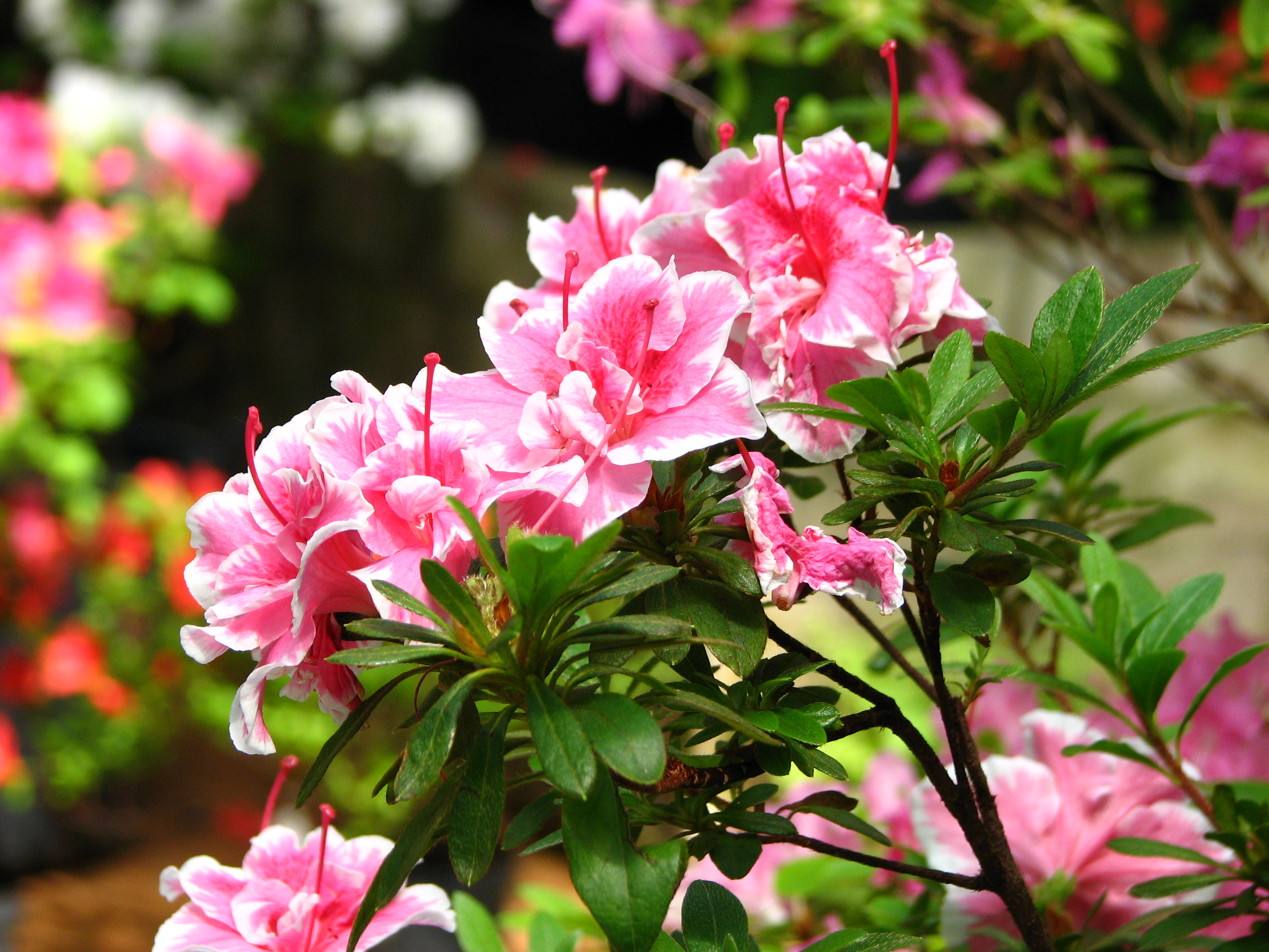 Rhododendron 'Inga'. From the collection of the Stock greenhouse of the Main Moscow Botanical Garden of Academy of Sciences.